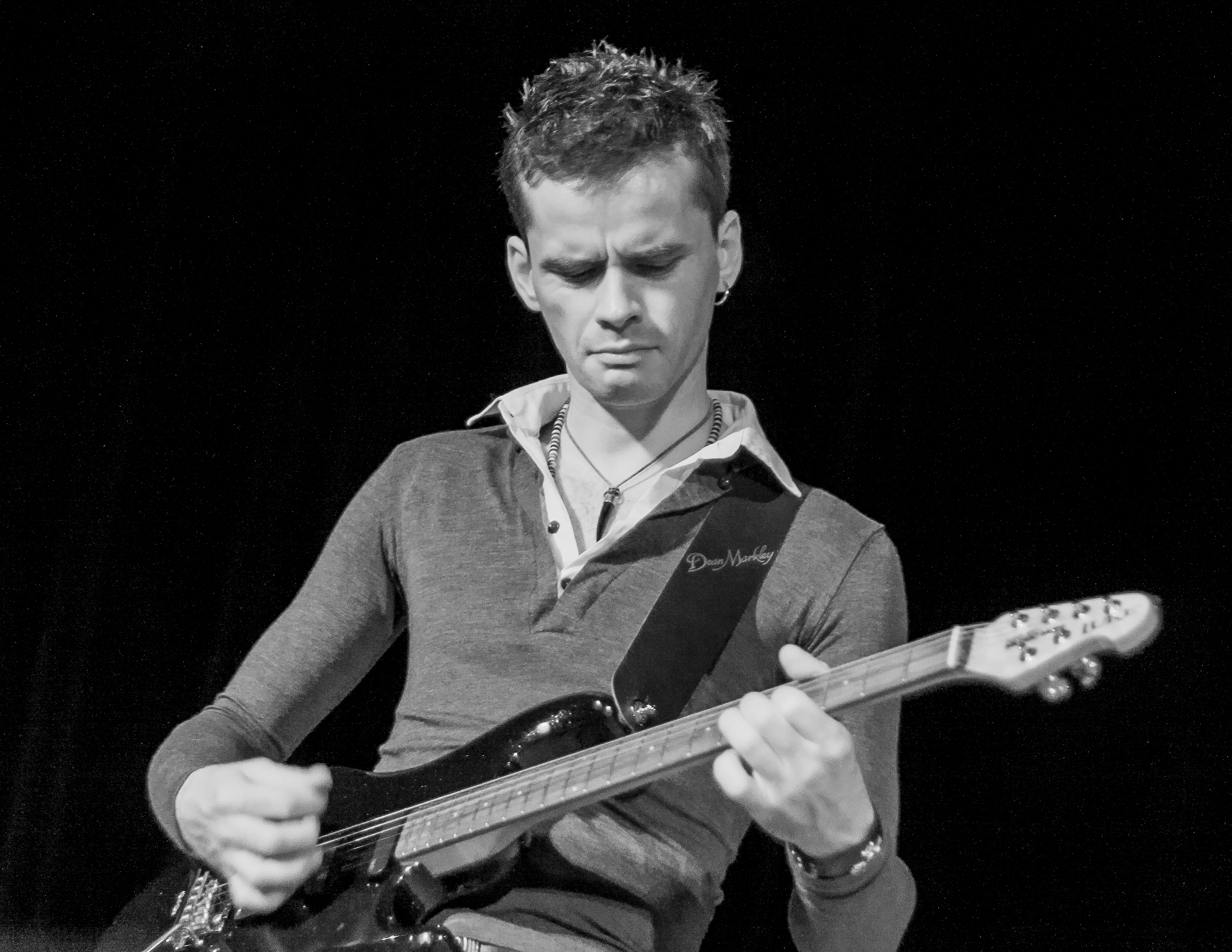 Grupa Millenium podczas festiwalu ACK Electric Nights Festival Progressive Stage w Lublinie (12 listopada 2010).